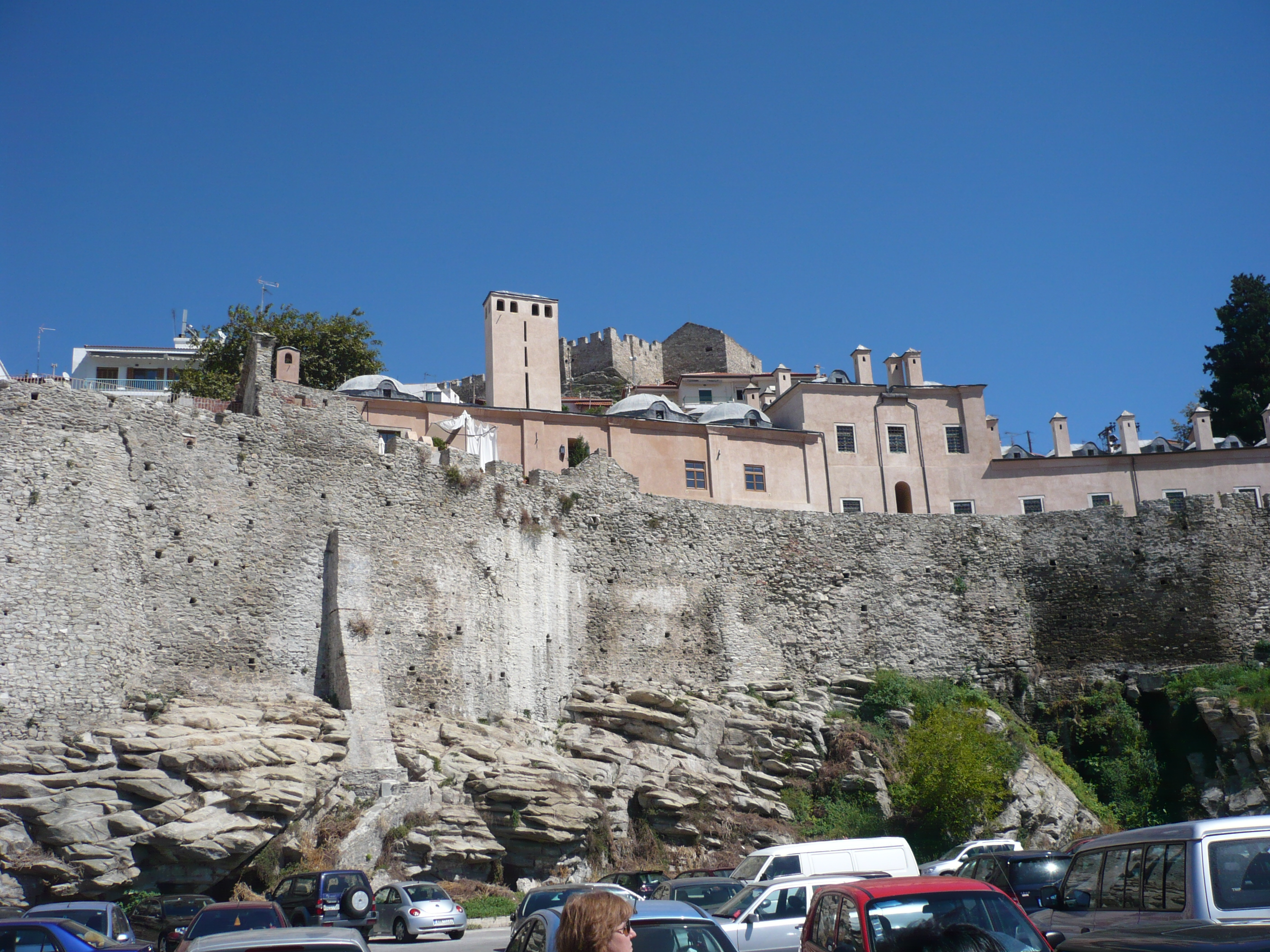 Kavala Imaret